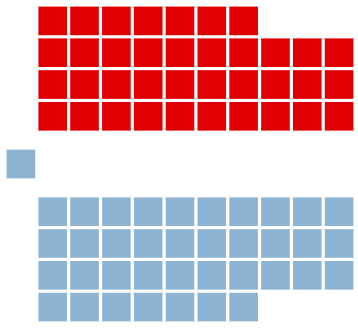 Labour: 37 seats Commonwealth Liberal: 38 seats